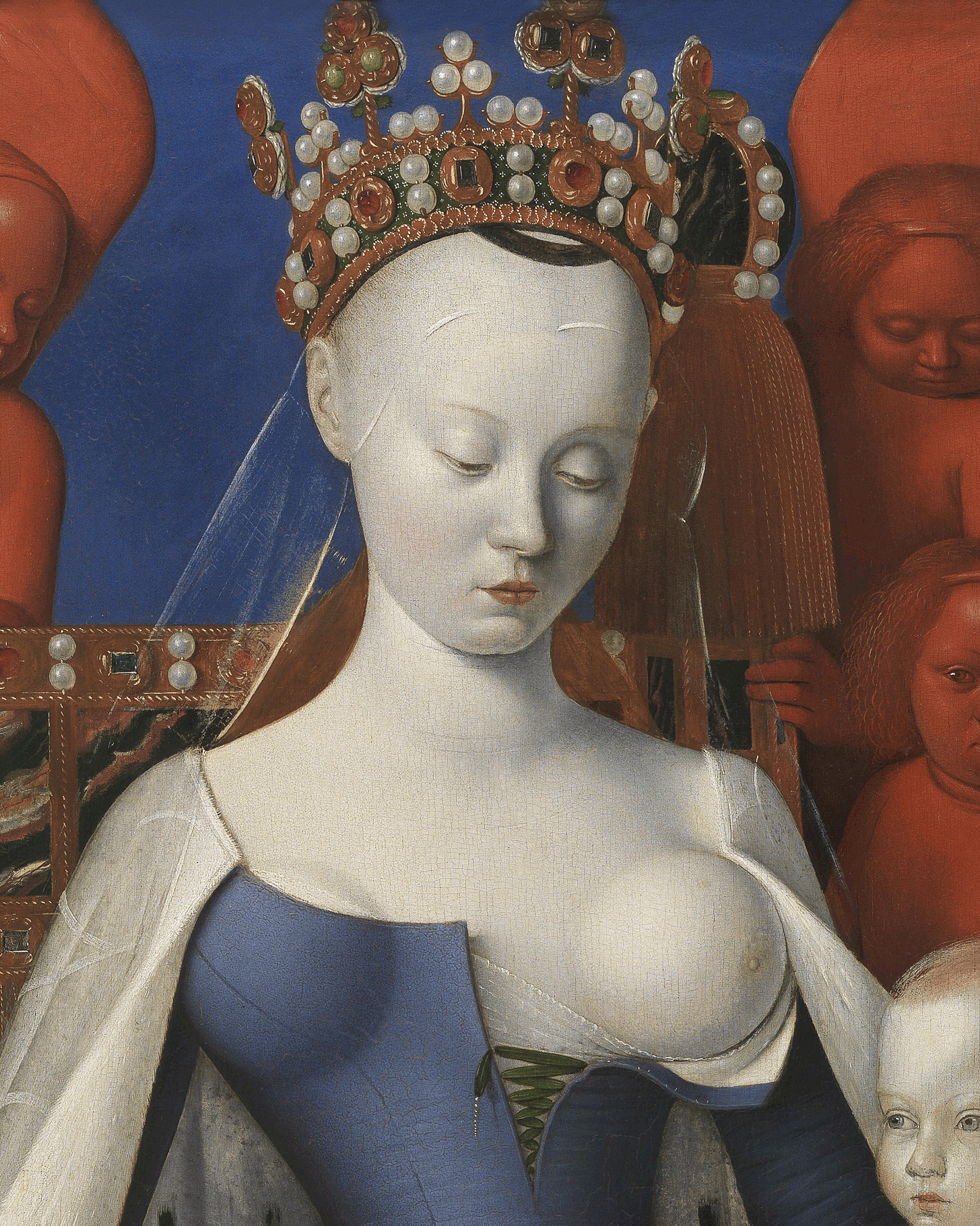 Melun-Diptychon (Portrait of Agnès Sorel as Madonna with child)